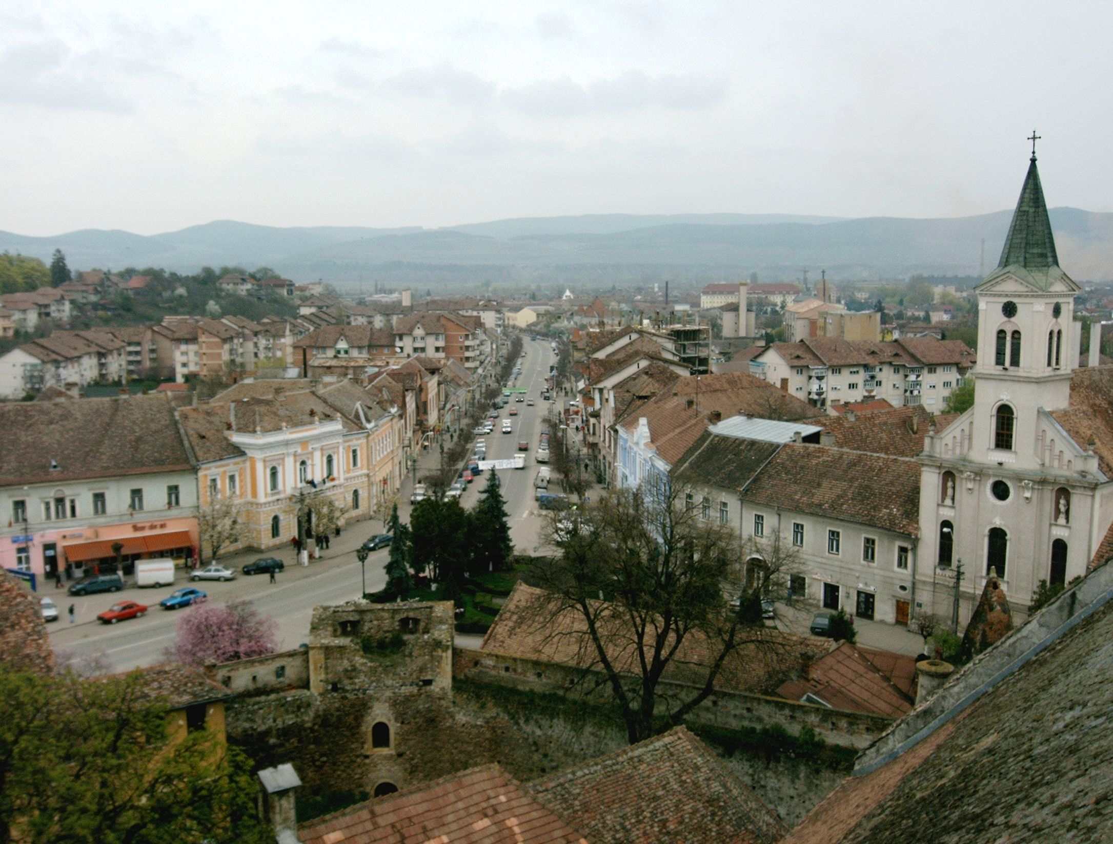 View of Aiud from the (reformed) church's tower.